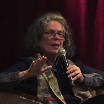 A picture of theorist Kristin Ross speaking